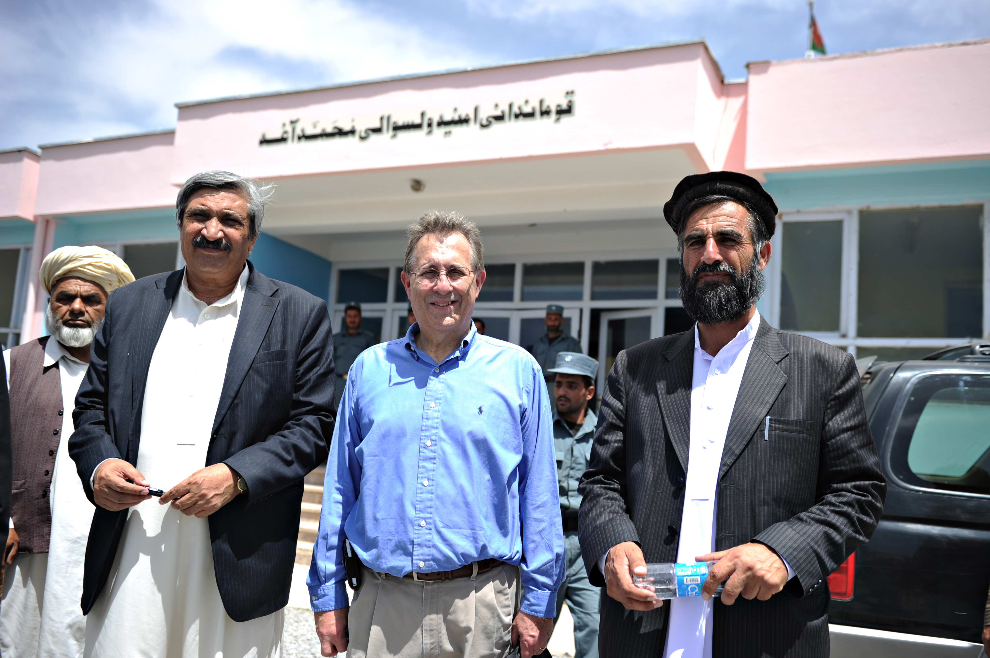 Deputy Ambassador E. Anthony Wayne with Governor Lodin and District Sub Governor Hammid at the Mohammad Agha District Center, Logar Province, Afghanistan on Tuesday, May 17, 2011.